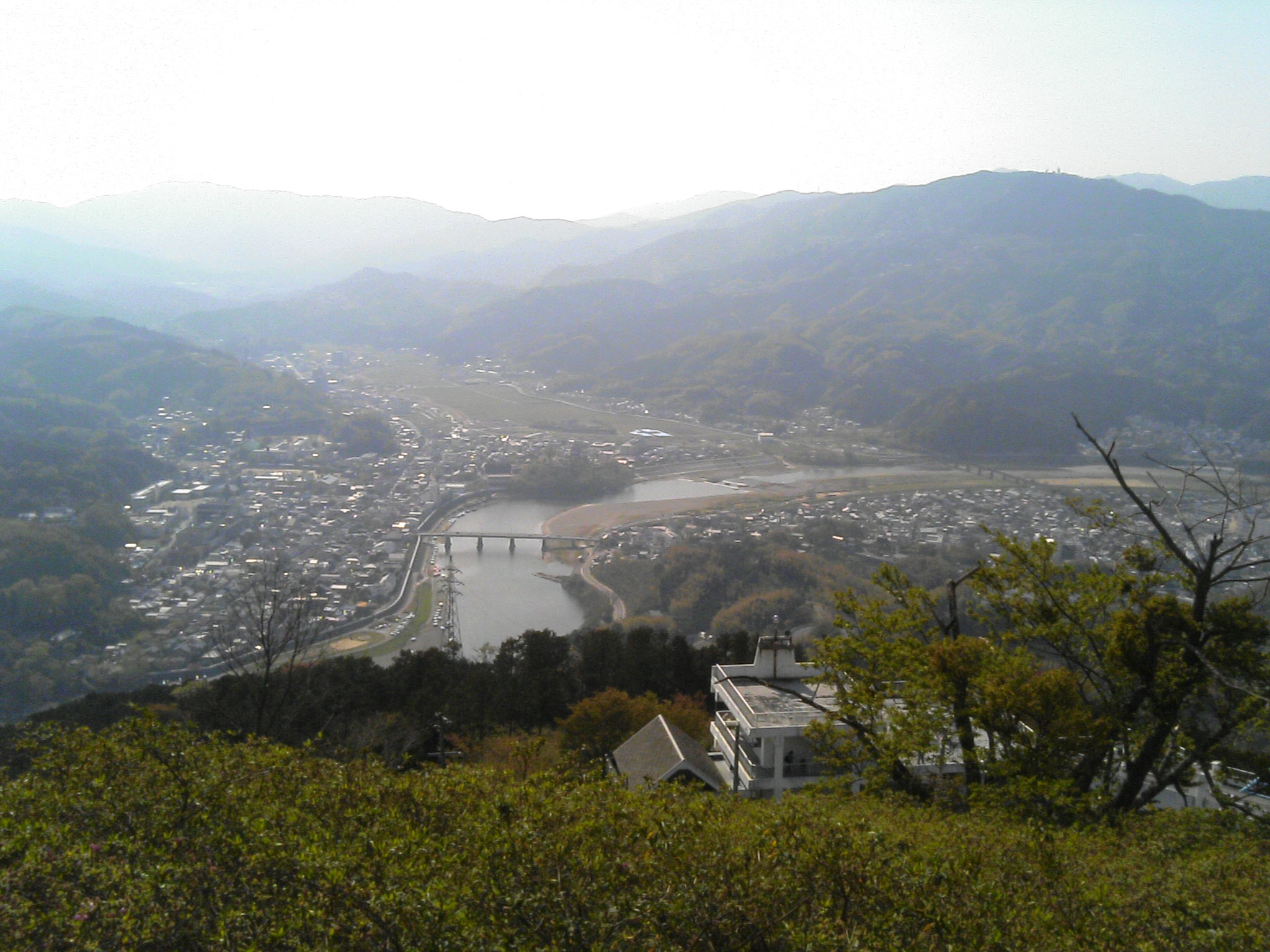 A view of Ōzu, Ehime, Japan, from atop Mt. Tomisuyama (冨士山)